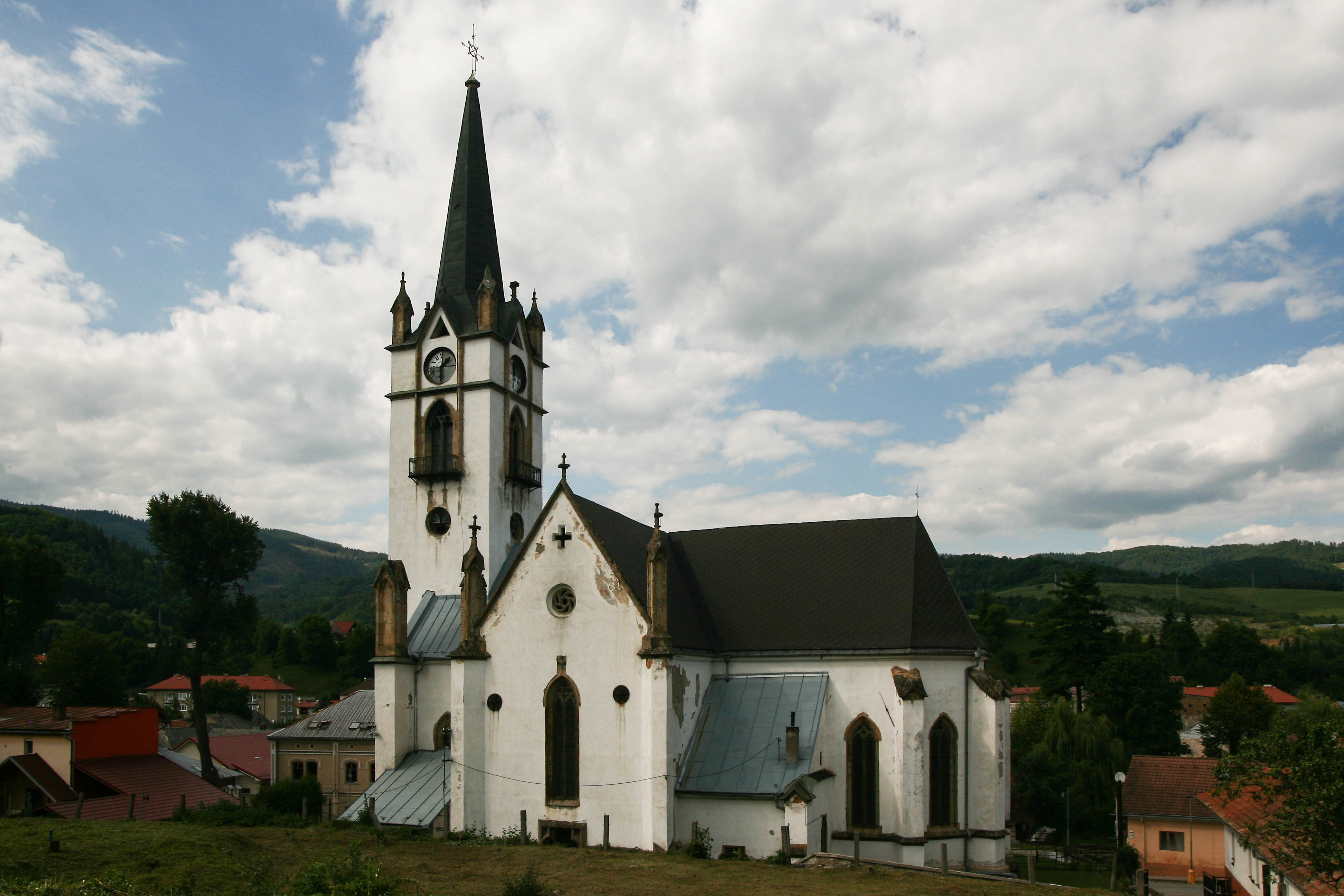 Gothic Lutheran Church in Dobšiná, Slovakia.